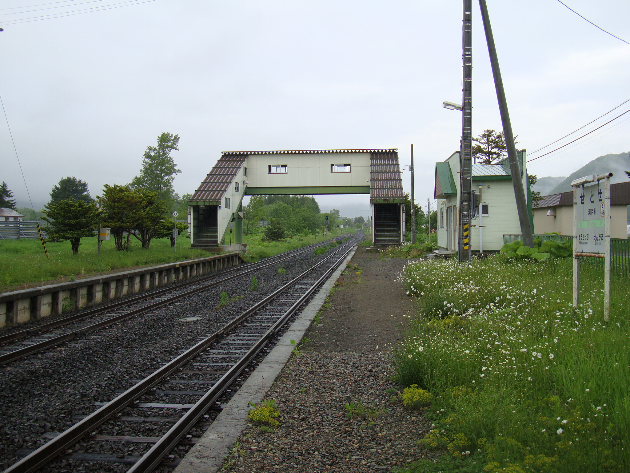 Setose Station